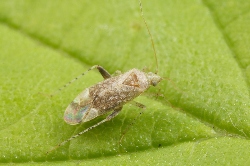 Compsidolon salicellum (Miridae), Tricht, the Netherlands